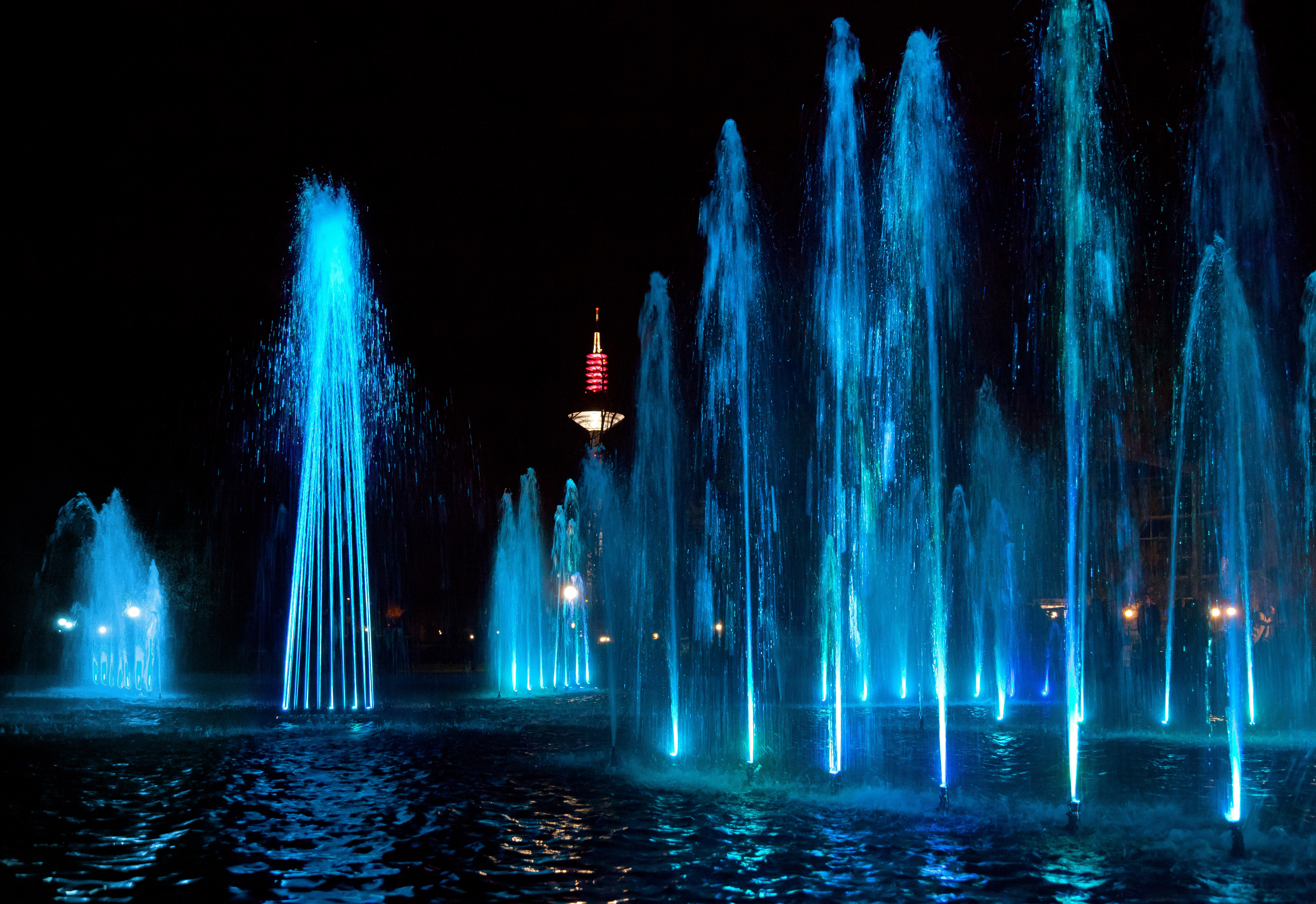 „Dancing Water“ at Luminale 2012 in Frankfurt, Germany